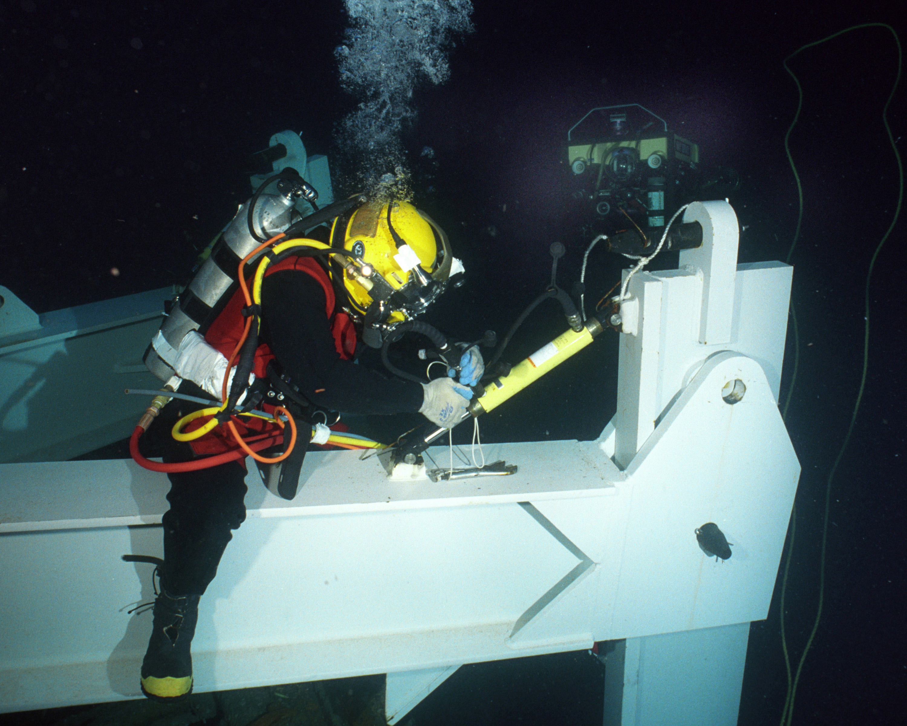 At sea off the coast of Cape Hateras, N.C. (July 21, 2002) -- Hull Technician 1st Class John Coffelt works on a hydraulic ram as a remote operated vehicle (ROV) looks on during a dive on the sunken Civil War Ironclad, USS Monitor, which rests 230 feet below the ocean's surface. The ram will be used to articulate a leg of the "spider" apparatus that will lift the turret. U.S. Navy photo by Chief Photographer’s Mate Eric J. Tilford. (RELEASED)